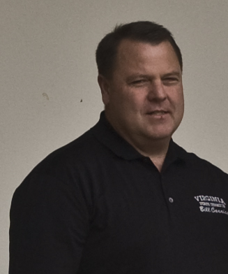 State Senator Bill Carrico spoke at the anniversary celebration. - AA